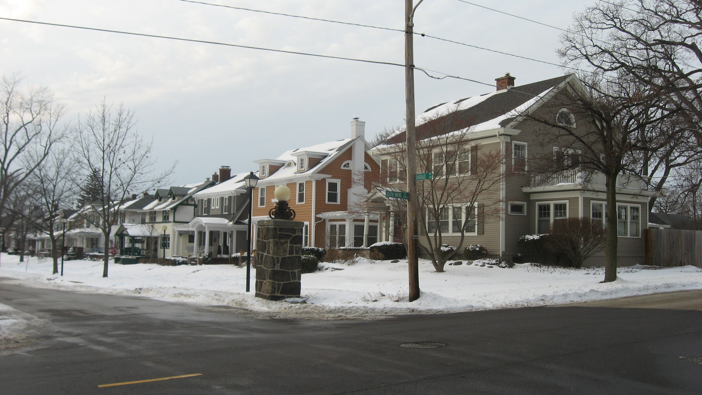 Looking west on Oakdale Drive from the Wayne Avenue intersection in Fort Wayne, Indiana, United States. This block is part of the Oakdale Historic District, a historic district that is listed on the National Register of Historic Places. Note the distinctive stone entrance marker; it per se is a part of the district.